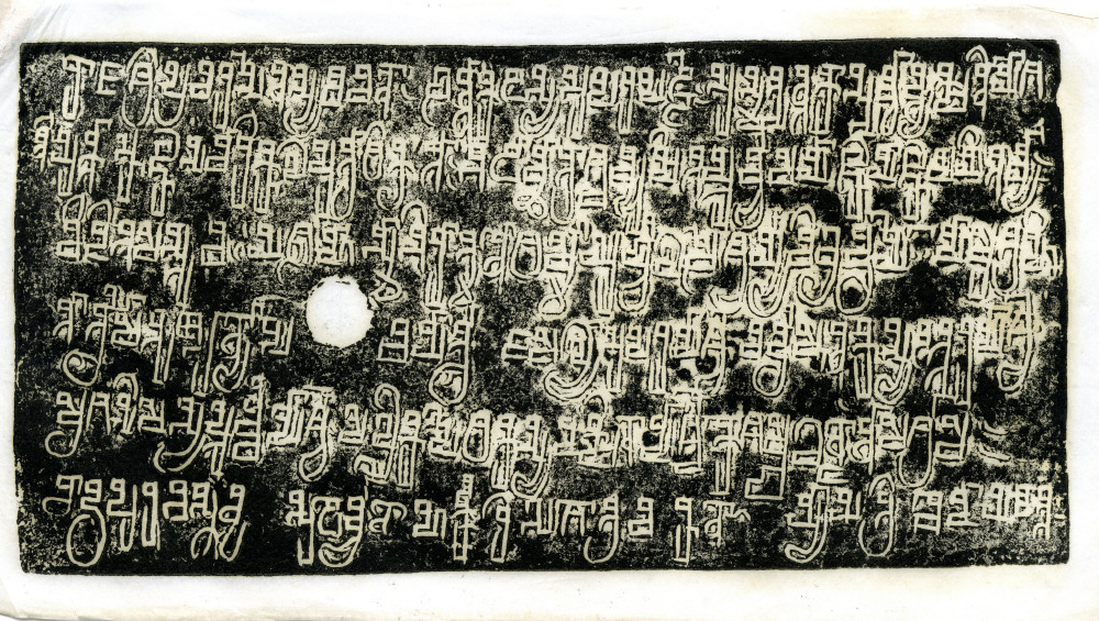 Tirodi copper plate of Pravarasena II, fourth plate